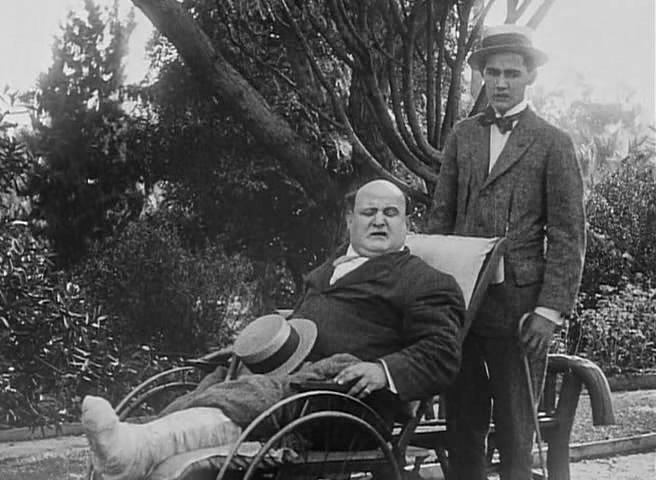 Screenshot of "His new profession" (1914) with Jess Dandy & Charley Chase